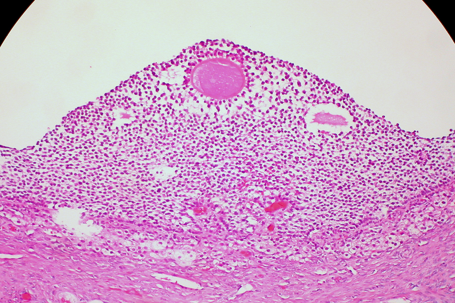 Graafian Follicle Cumulus Oophorus in Human Ovary Pathological and histological images courtesy of Ed Uthman at flickr.